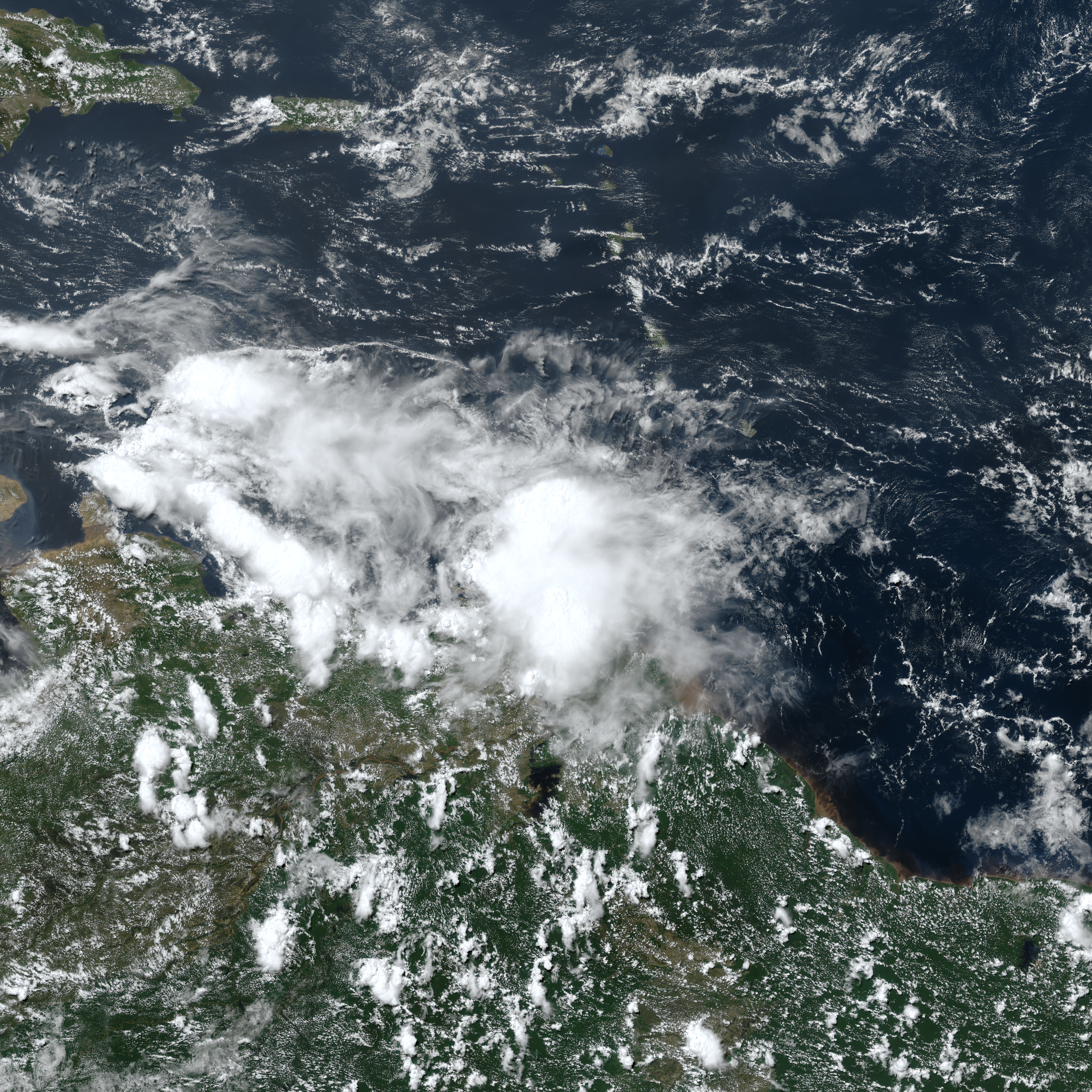 Tropical Depression Gonzalo on July 25, 2020